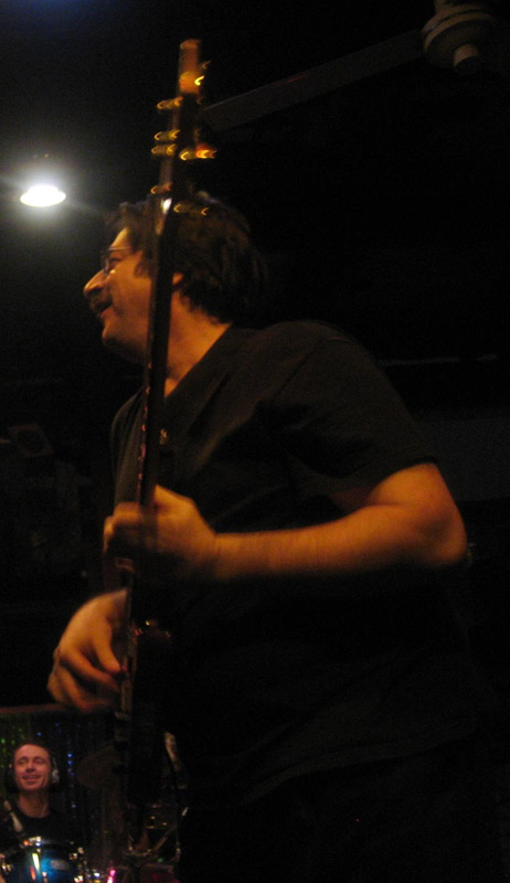 Bassist Jeff Berlin, taken during the Bx3 tour on February 7, 2007 in Austin, Texas.